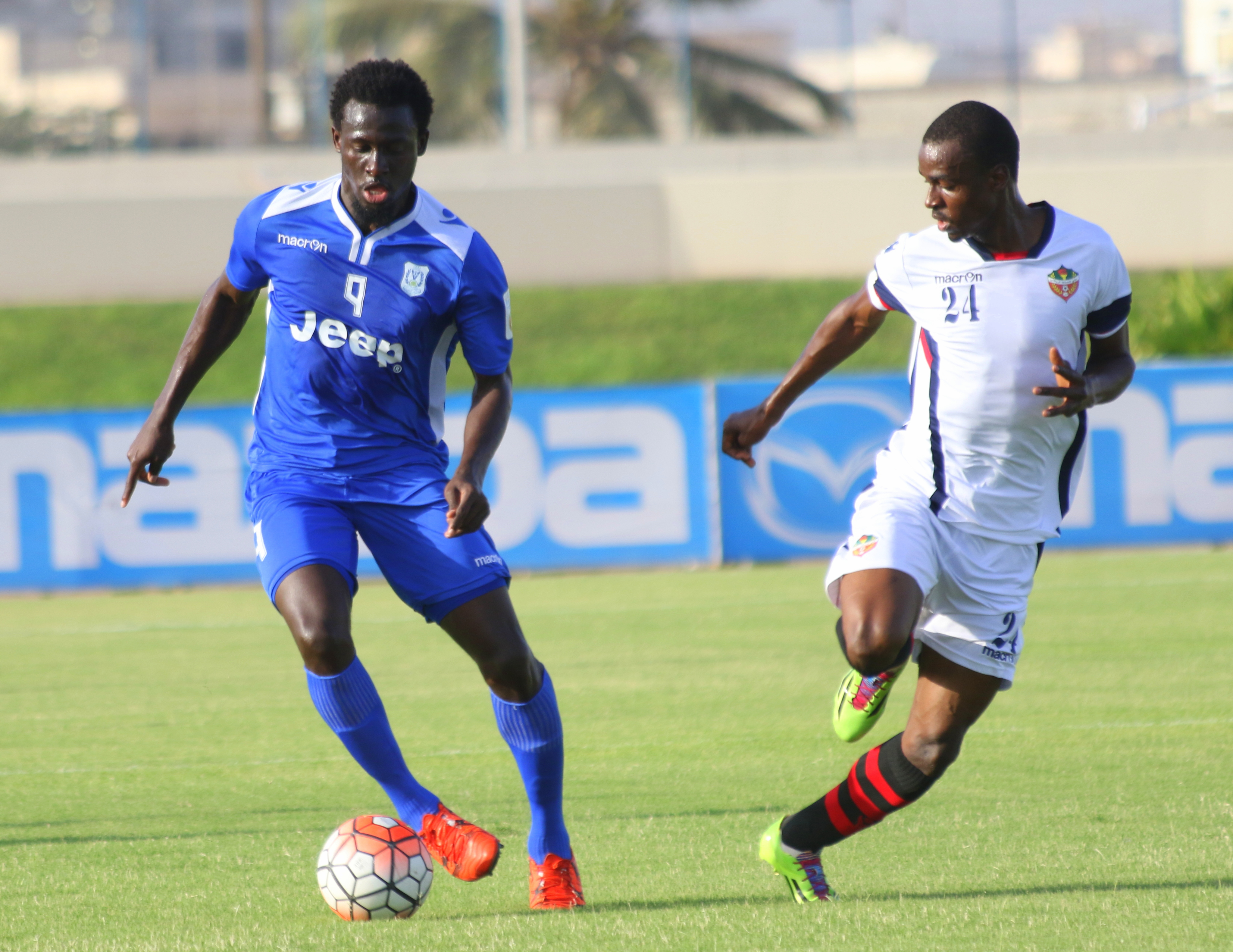 Mamadou Soro Nanga in a match against Al Musannah Club. 20 March 2016 Auqad Sports Complex, Salalah, Oman Photographer : Pratyush Mishra Photographer email id